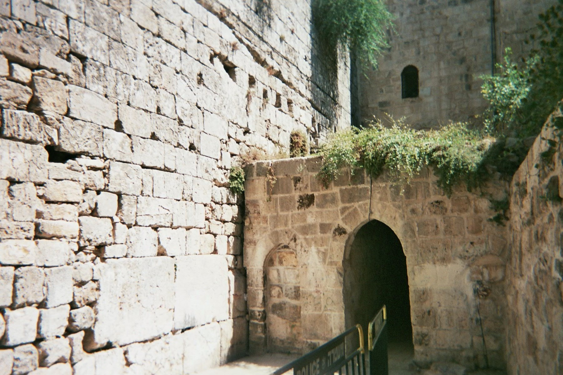 Kotel Hakatan, the small wailing wall in Jerusalem